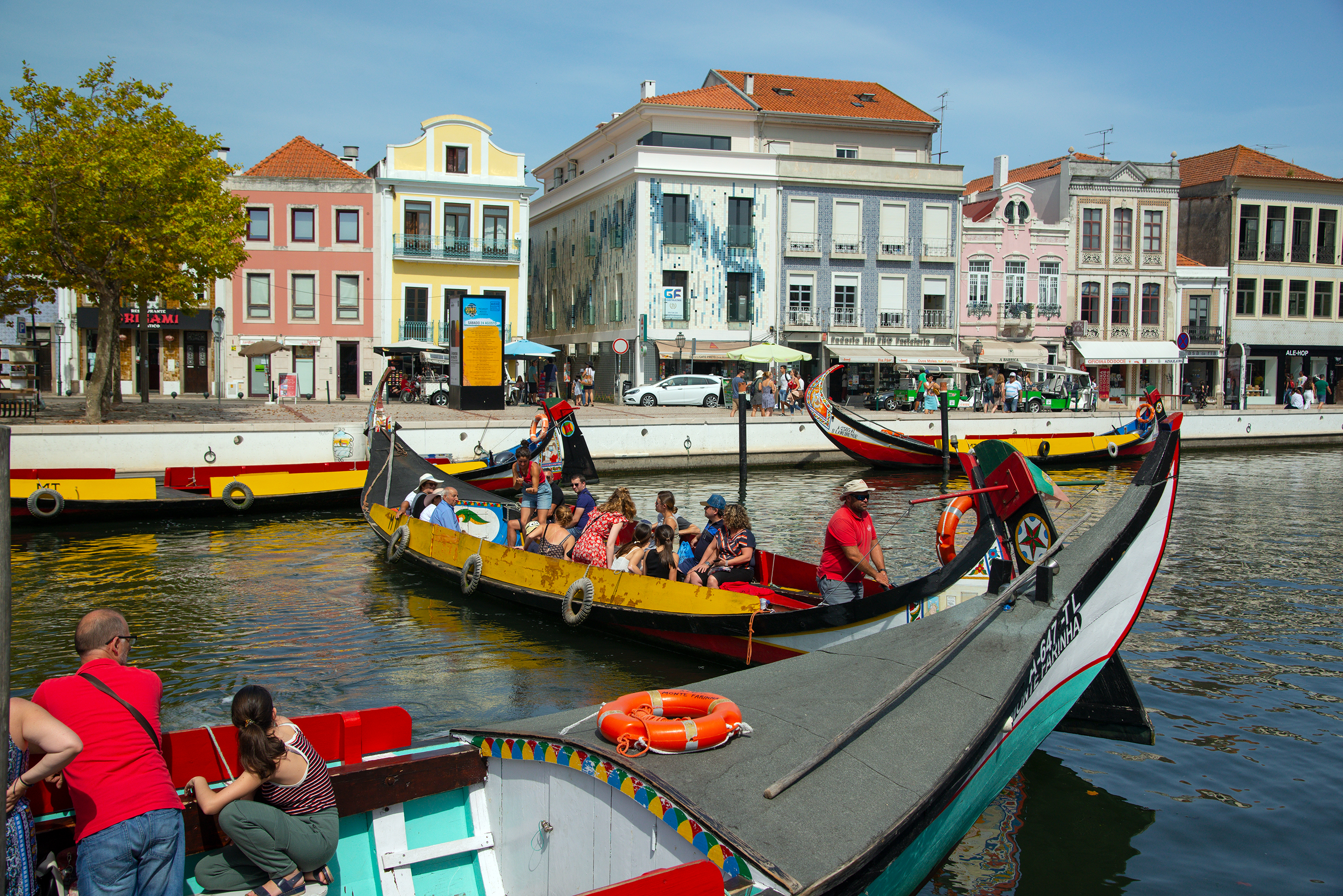 The river area with its Art Nouveau buildings and boat rides on barcos moliceiros for tourists